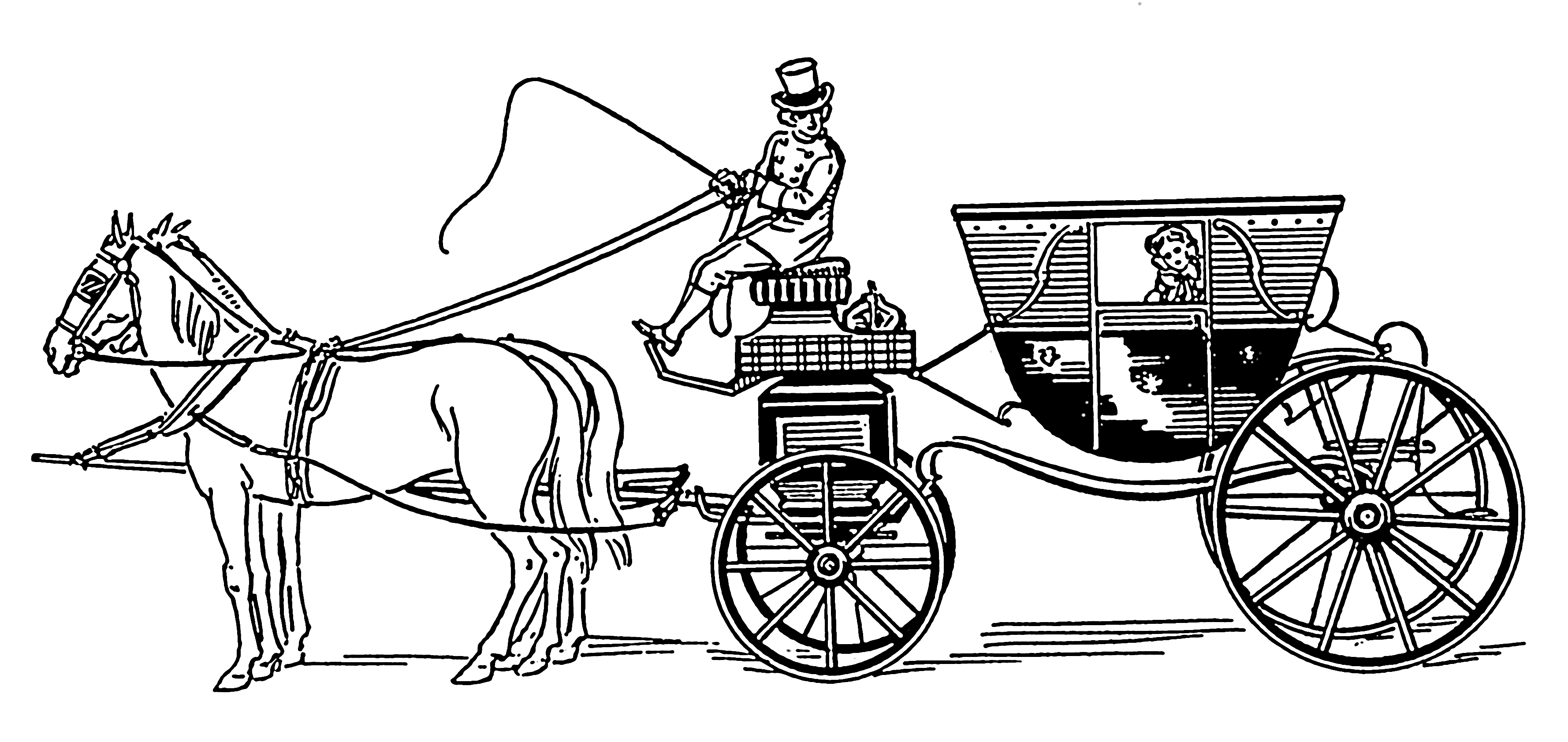 Line art drawing of a Berlin.